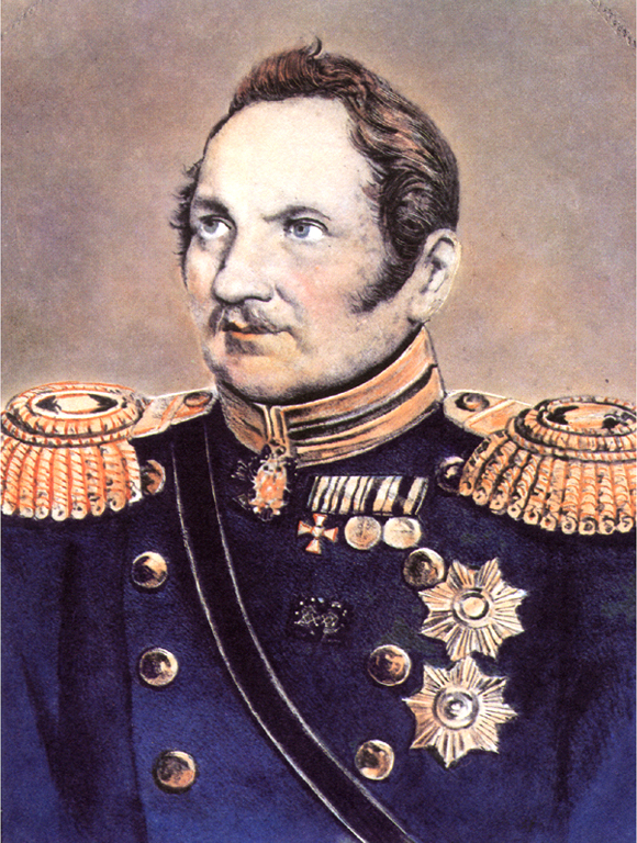 Bellinsgauzen Faddey. Antarctic's first sighter. Flickr data on 2011-08-13 Tags: old picture, Public Domain License: CC BY-SA 2.0 User: paukrus Ruslan